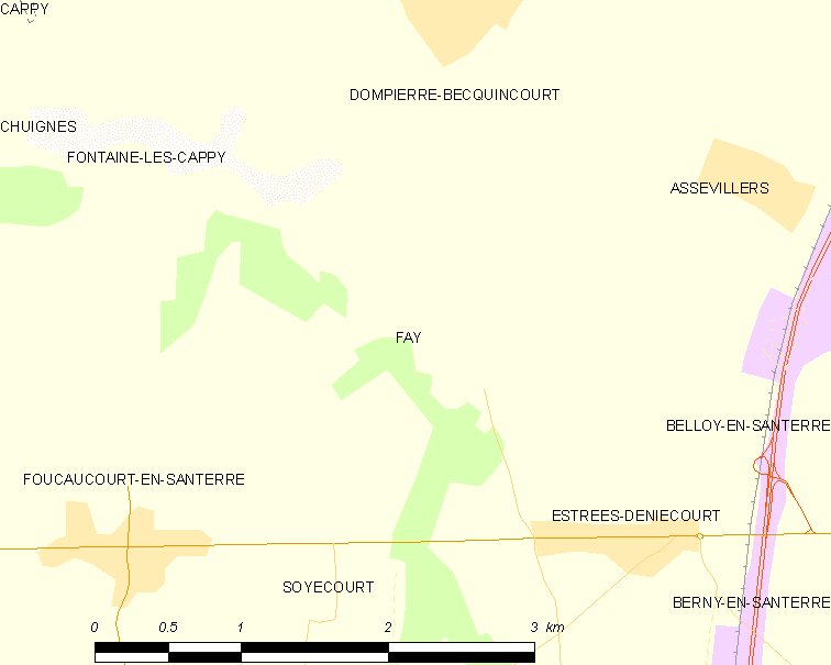 Map of French municipality Fay